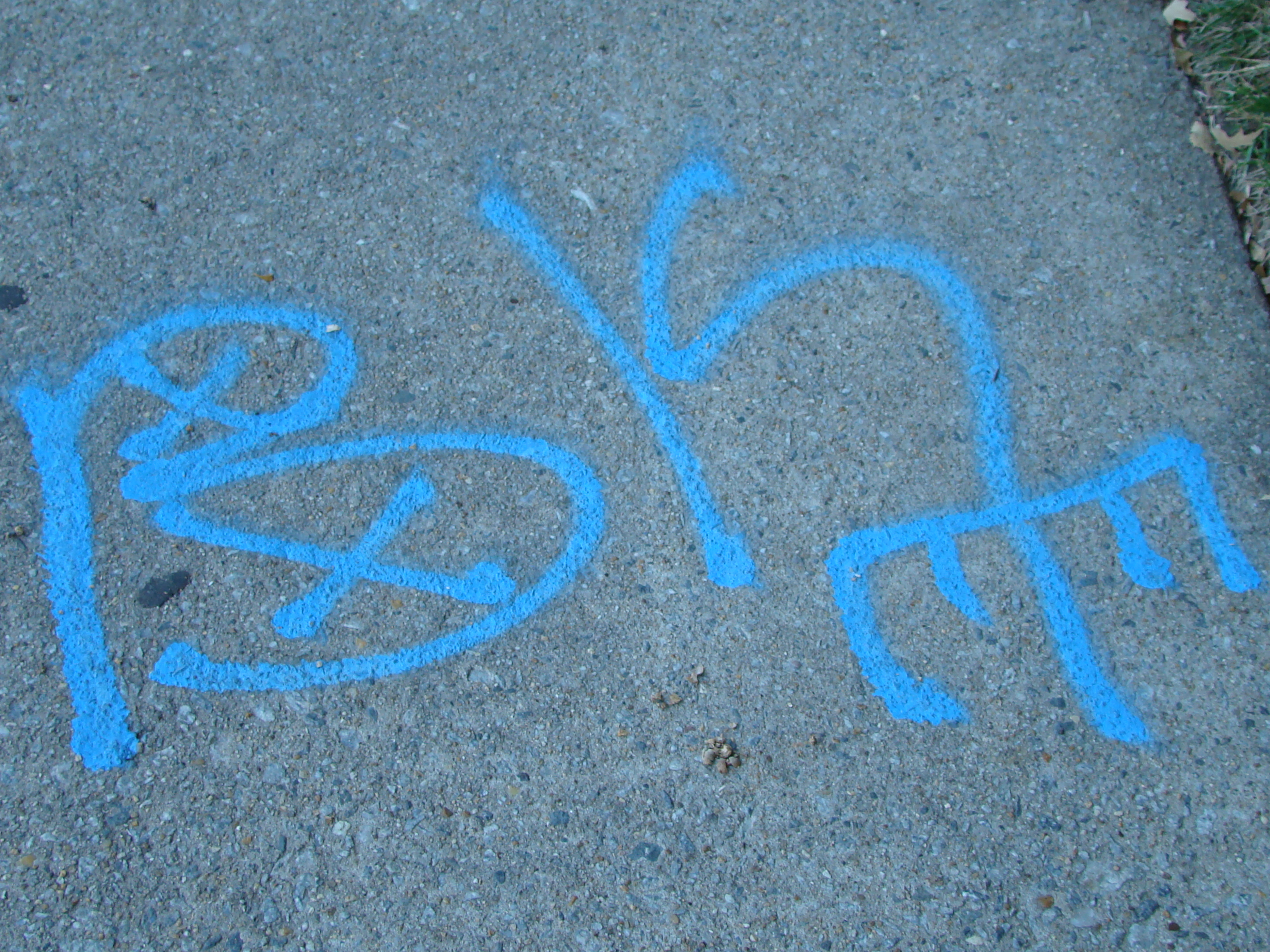 one of a series round the neighborhood off richmond highway, alexandria, virginia